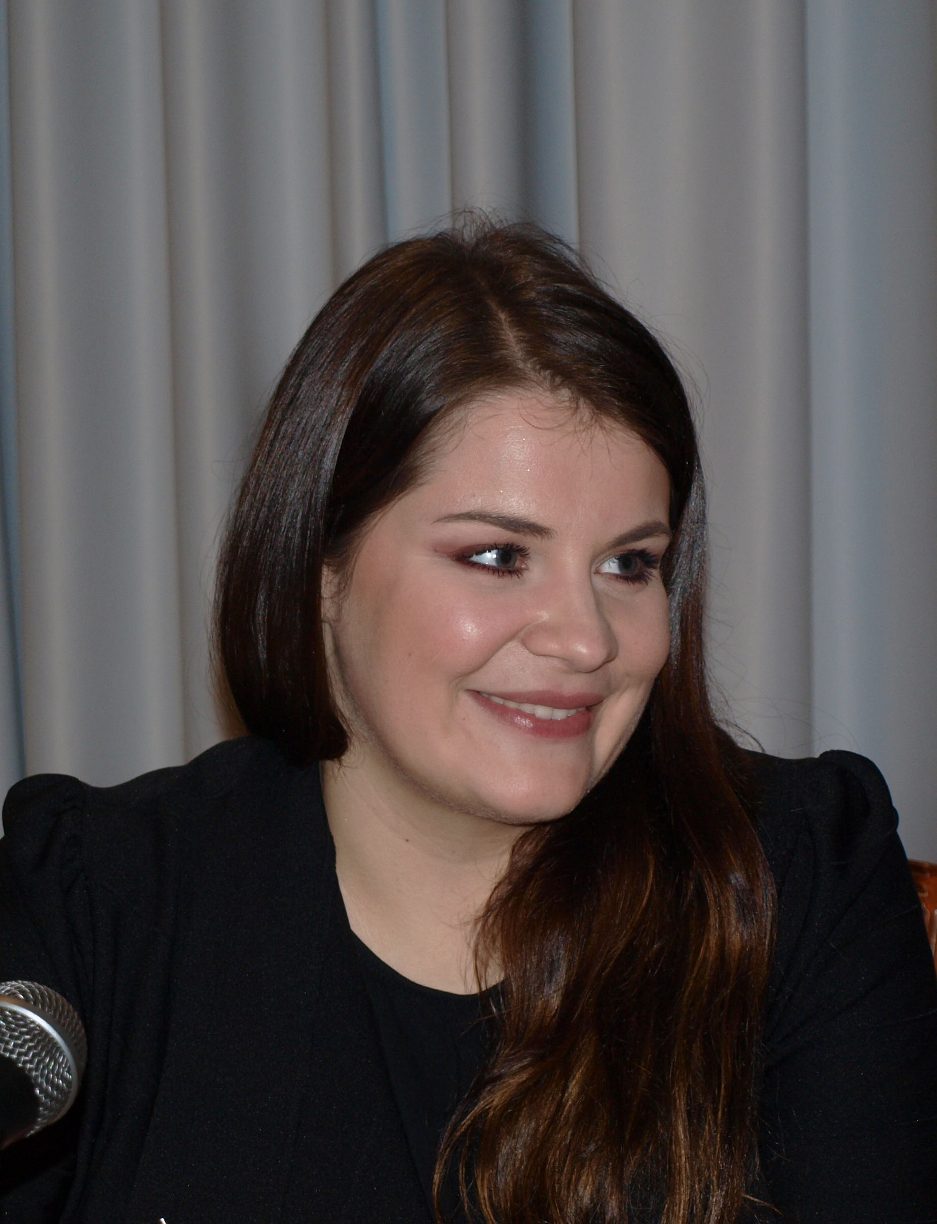 Selene Zanetti, Soprano, after artist talk in Munich, January 11, 2020